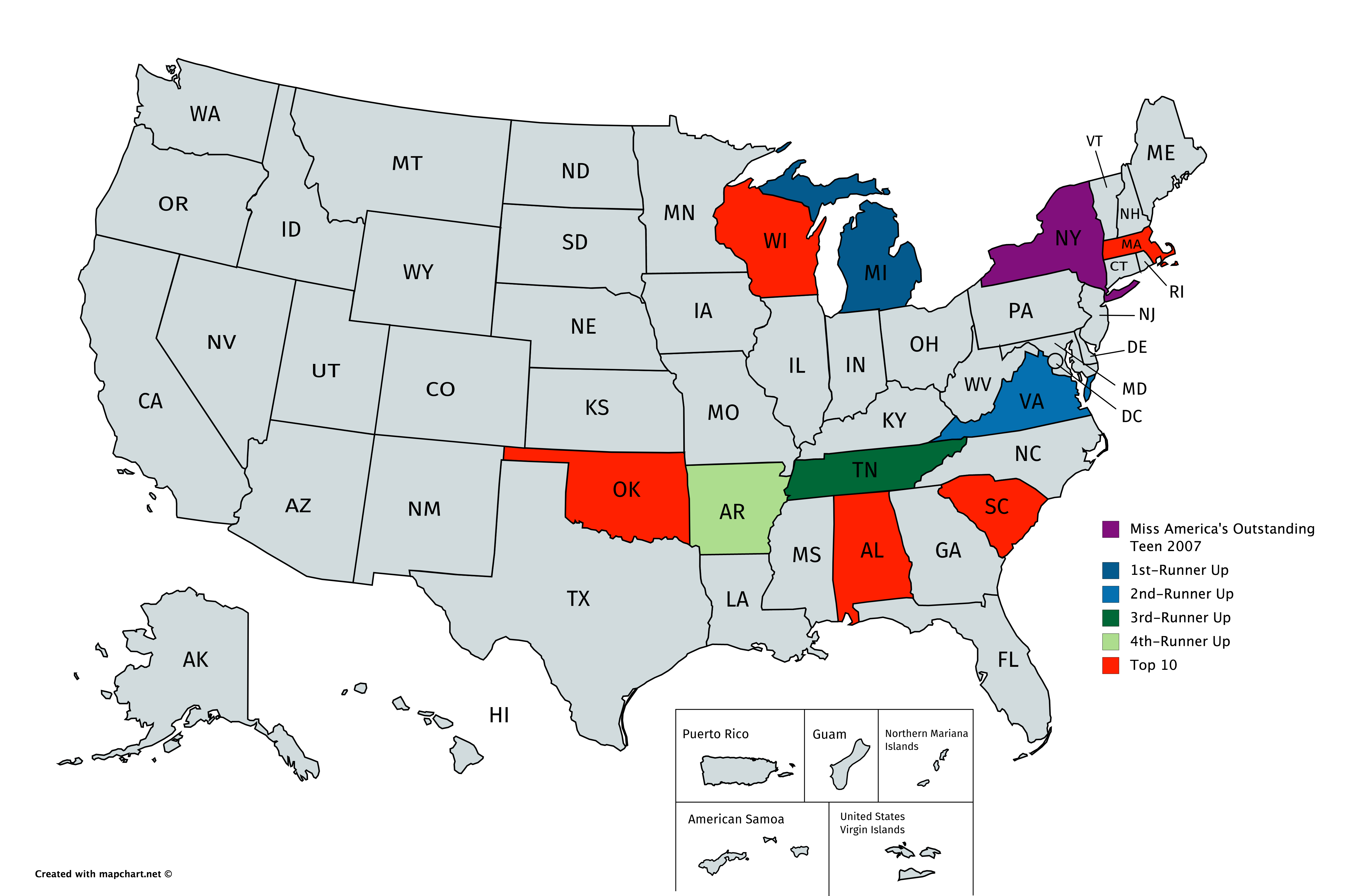 Placements of Miss America's Outstanding Teen 2007 on a map